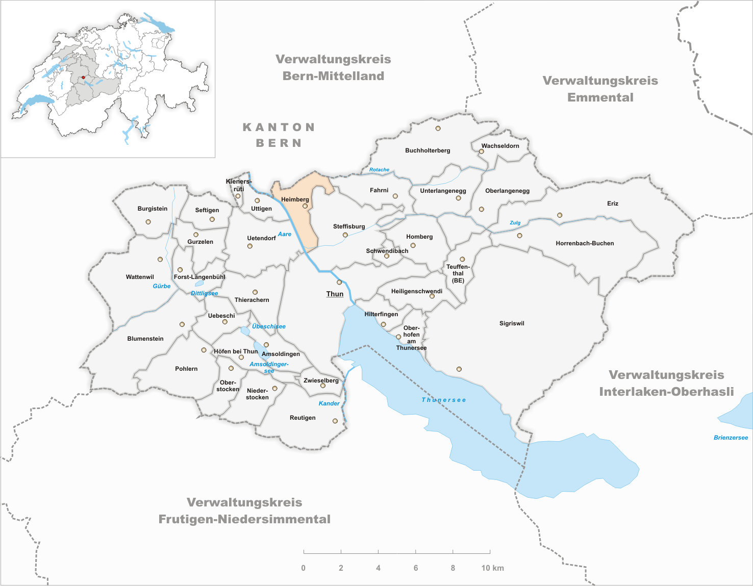 Municipality Heimberg